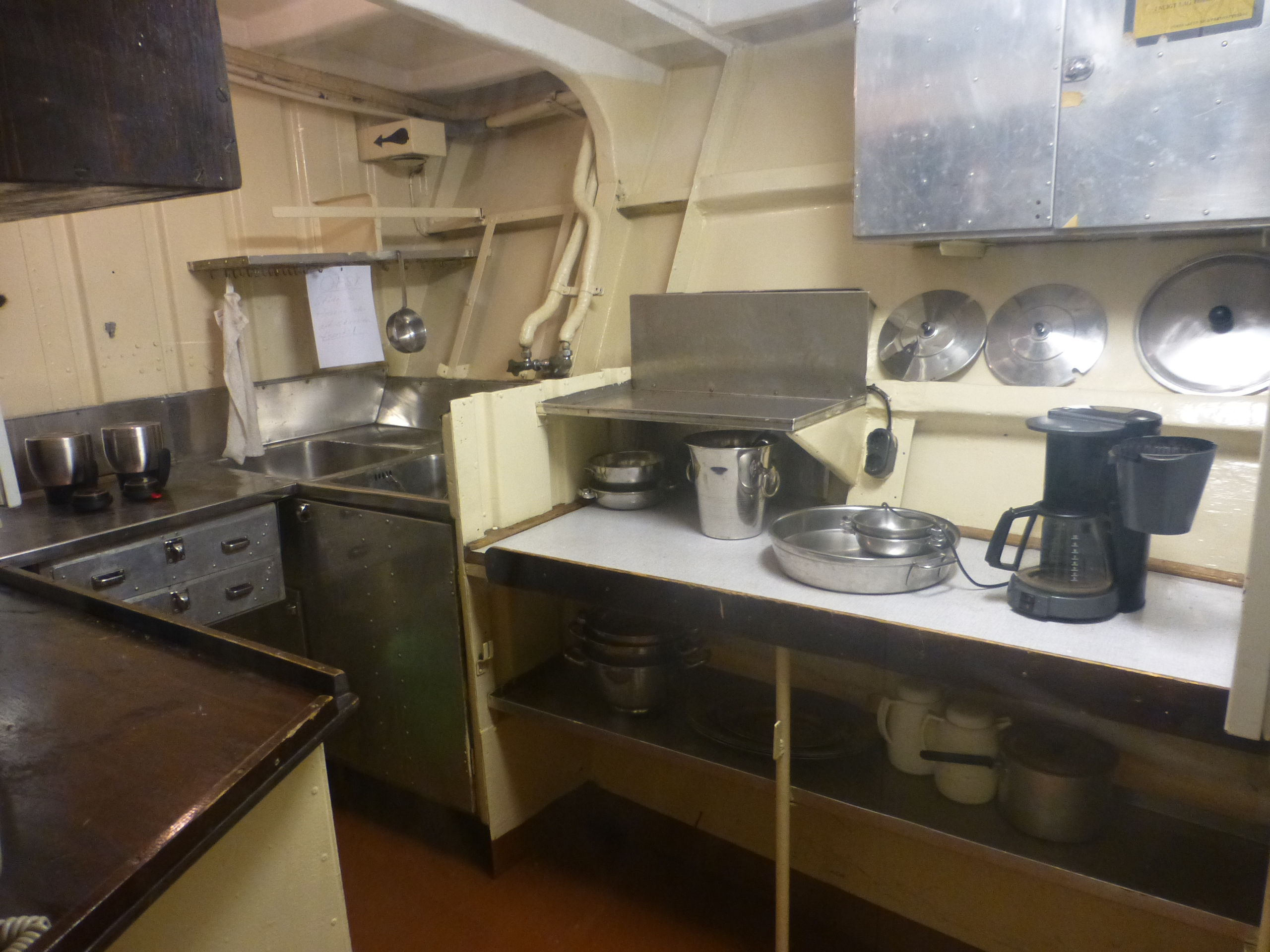 Interior of the destroyer HMS Småland from 1952 at the naval museum Maritiman in Göteborg.